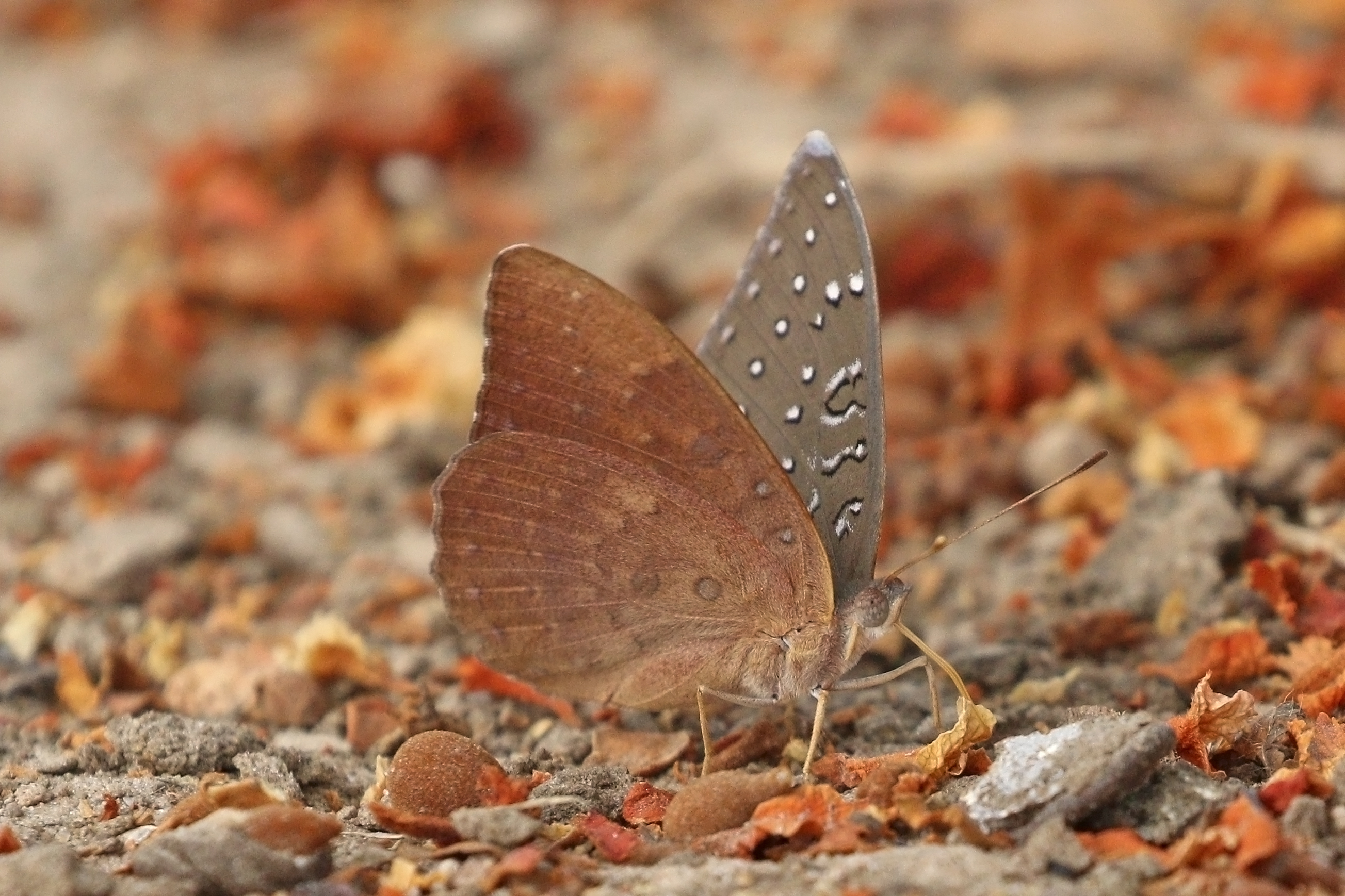 Guineafowl (Hamanumida daedalus) underside, Senegal